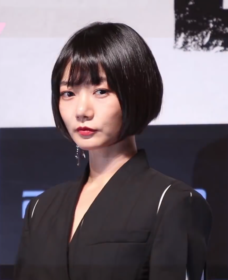 South Korean actress Doona Bae during promotion of her 2016 film The Tunnel.